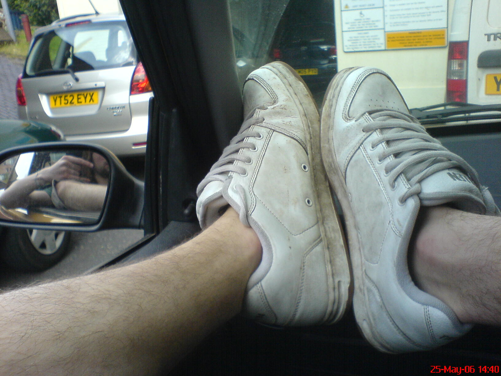 Human Feet in Sneakers inside a car. (Whilst taking Lianne to the hospital, i was bored.)